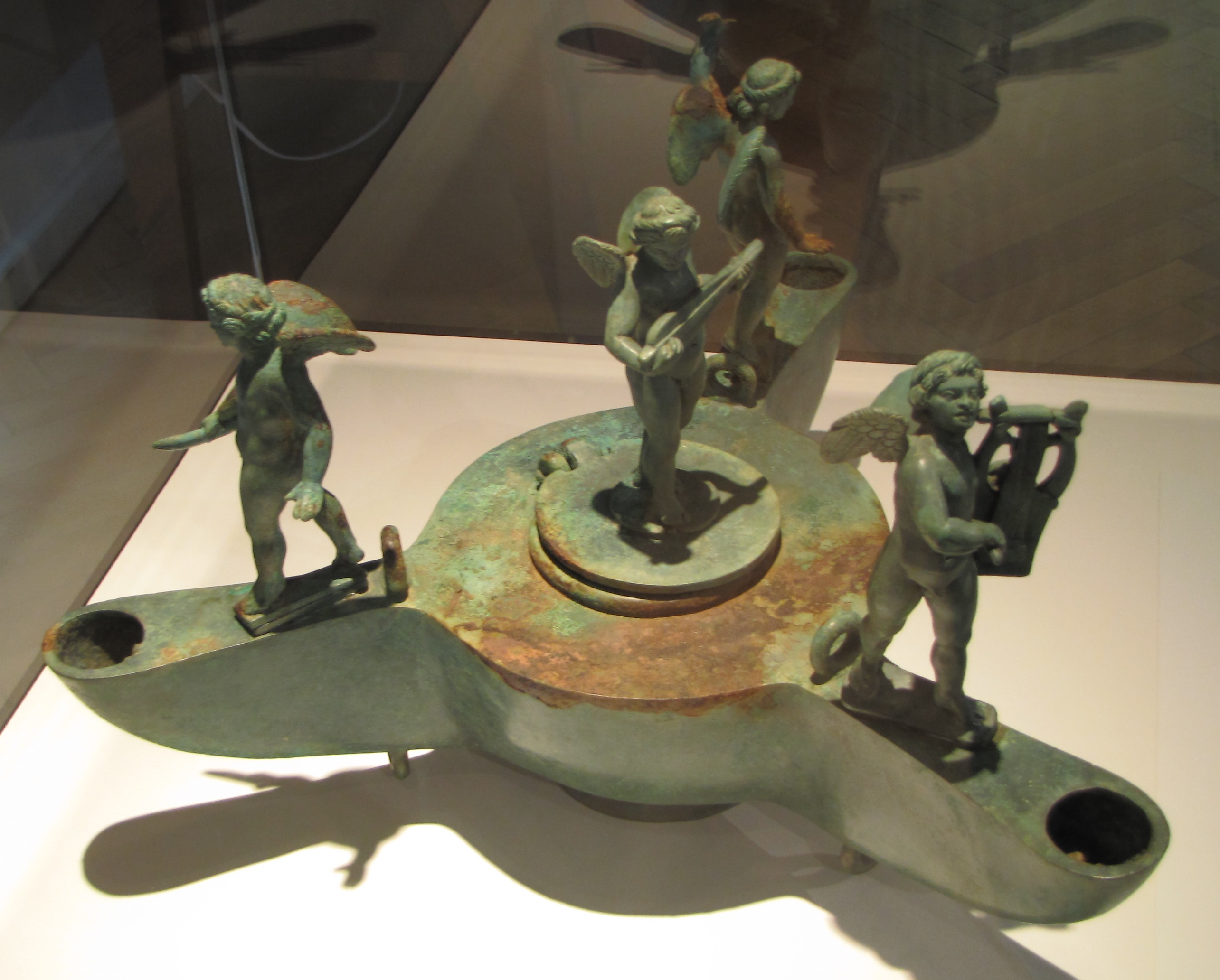 Bronze lamp with Erotes - Vani 1st century BCE